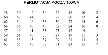 Initial Permutation for DES algorithm